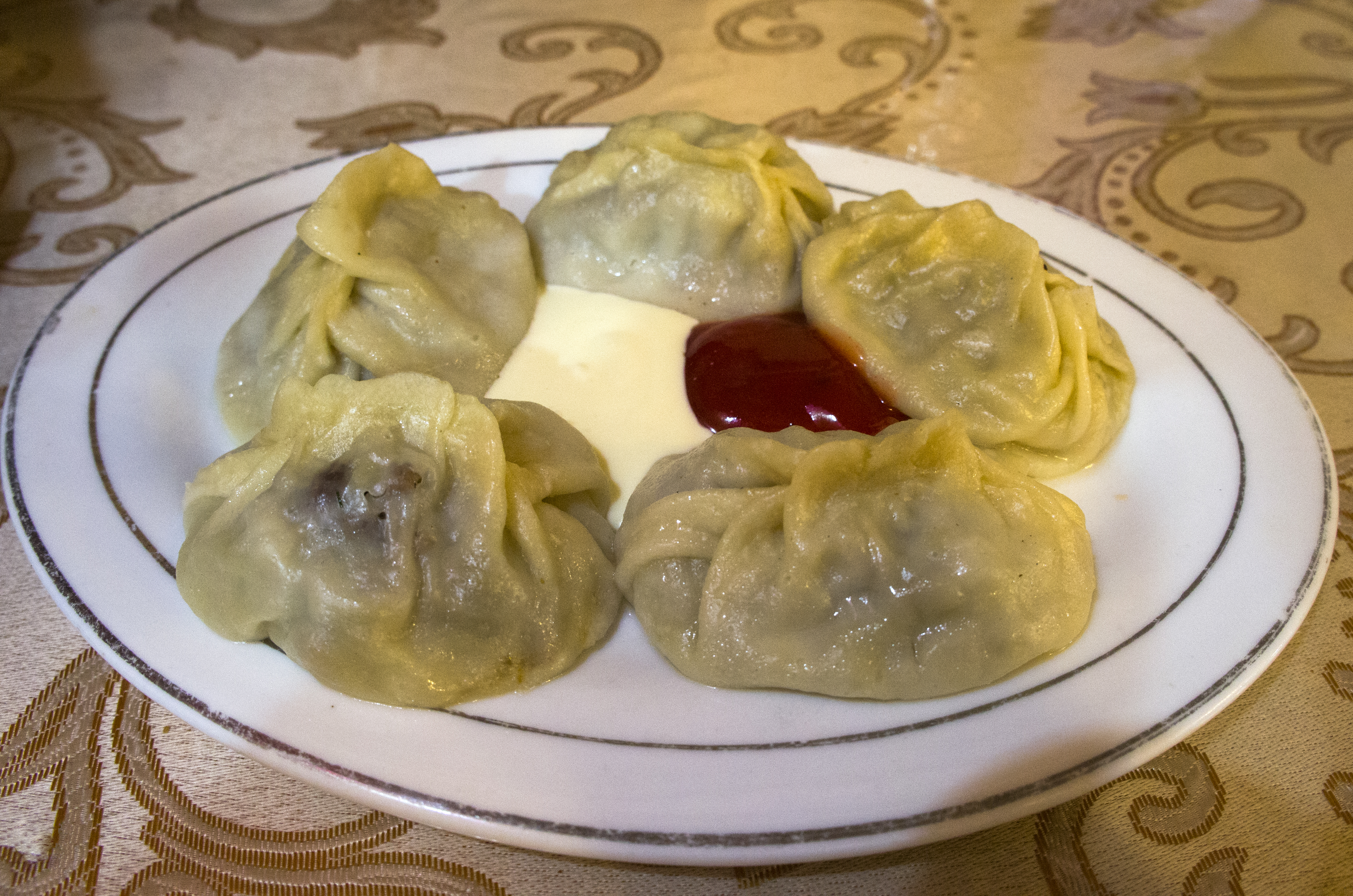 Manti as served in Astana, Kazakhstan. Manity is traditional cuisine of Central Asia.